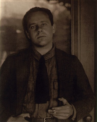 Young Paul Strand